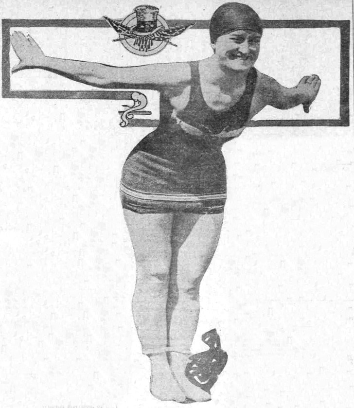 Multnomah Athletic Club diver Thelma Payne